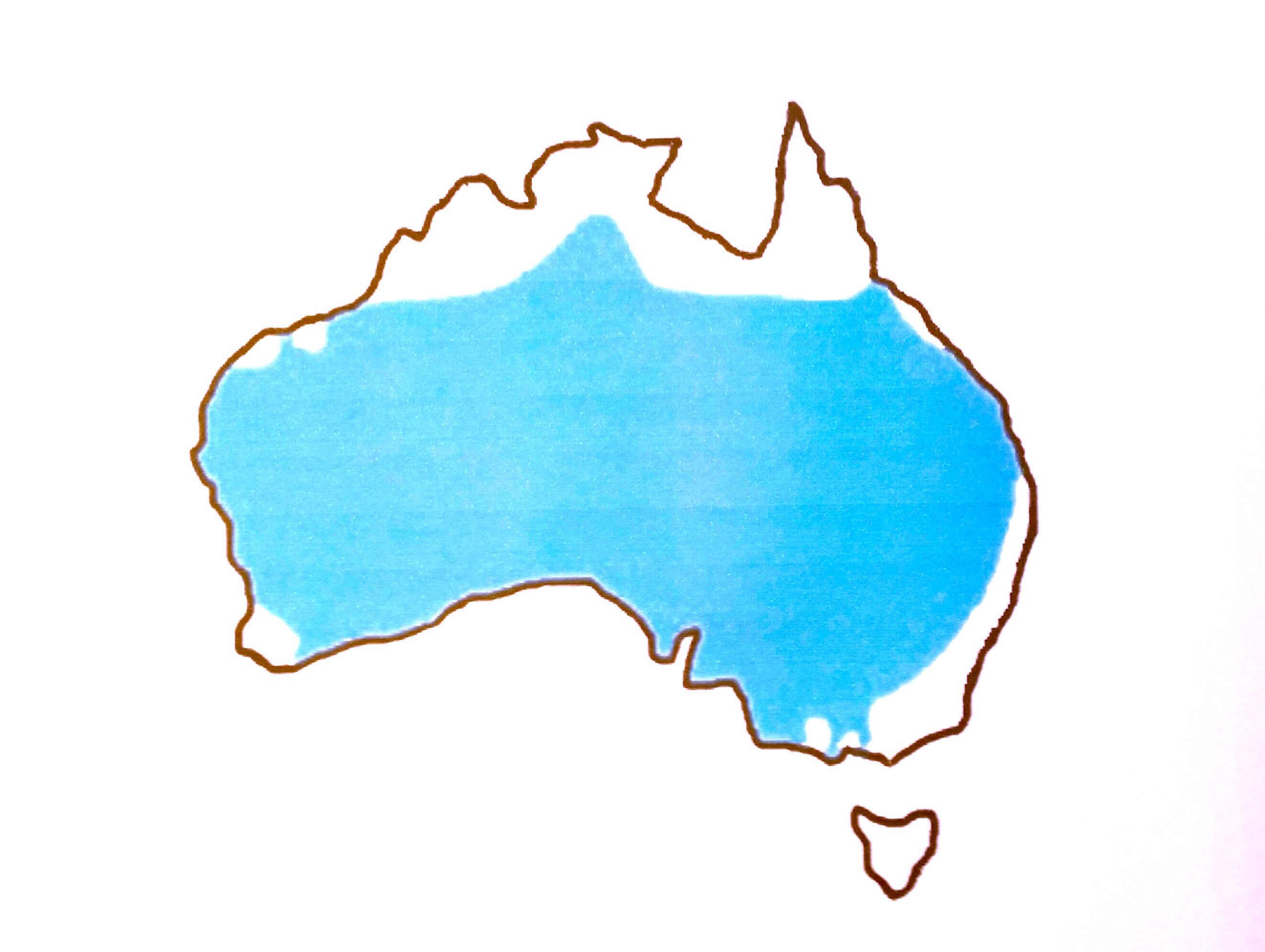 Map of the range of the spiny-cheeked honeyeater, interpreted from 127,185 sighting observations recorded by the Atlas of Living Australia.